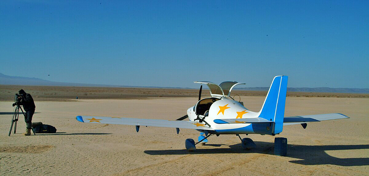 N81EU in the Gobi desert